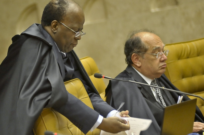 The ministers of the Supreme Court (STF) Gilmar Mendes and Joaquim Barbosa, the trial of Criminal Case 470, a process known as "Mensalão".